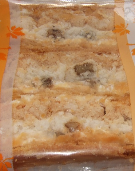 This photo was taken in Hong Kong and shows a local variation of the Napoleon pastry.